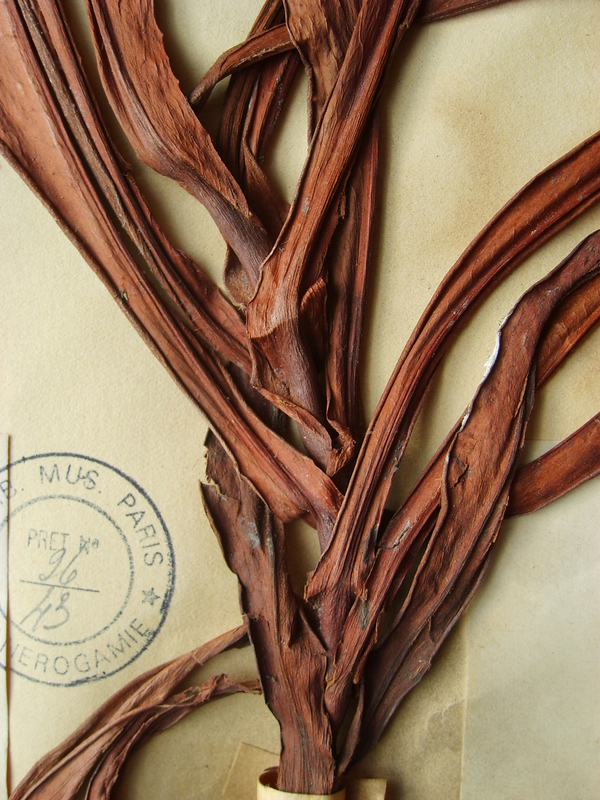 The lectotype of Nepenthes thorelii deposited at the Museum National d'Histoire Naturelle in Paris, France. This specimen is a male plant with lower pitchers.